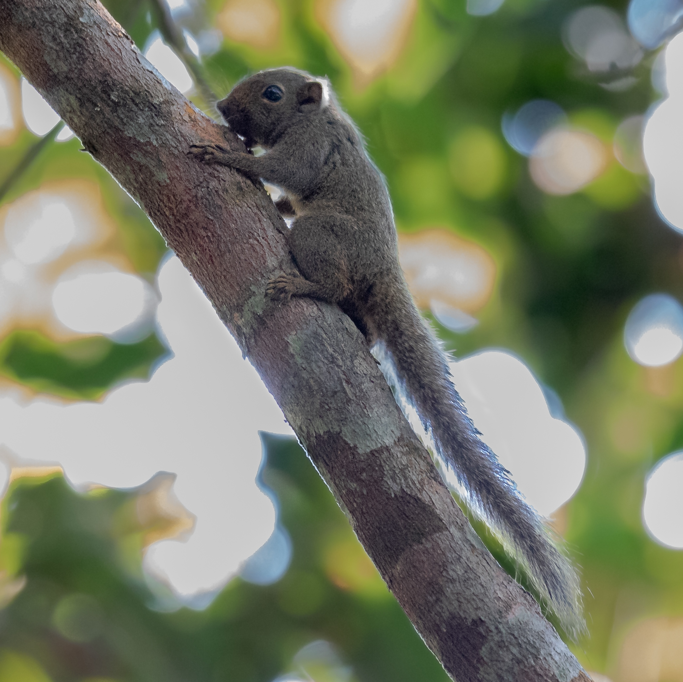 Amazon Dwarf Squirrel, Serra do Divisor National Park, Acre, Brazil